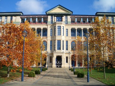 Judge Business School Cambridge UK. Trumpington Street. Built by a bequest from Simon Sainsbury